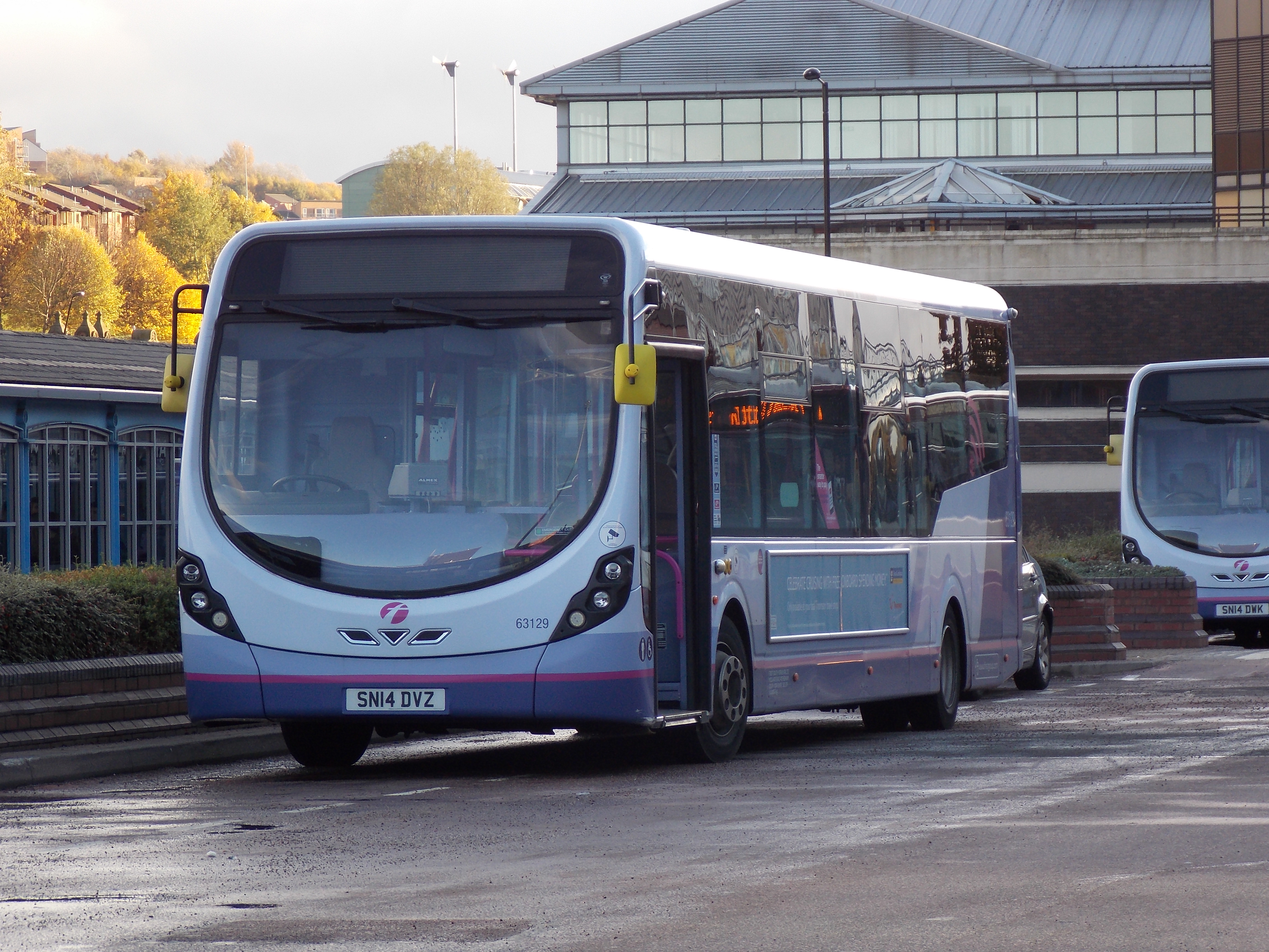 The first production Micro Hybrid Wright StreetLite Max, First Sheffield's SN14DVZ (63129). Sheffield Interchange, 25 October 2015.